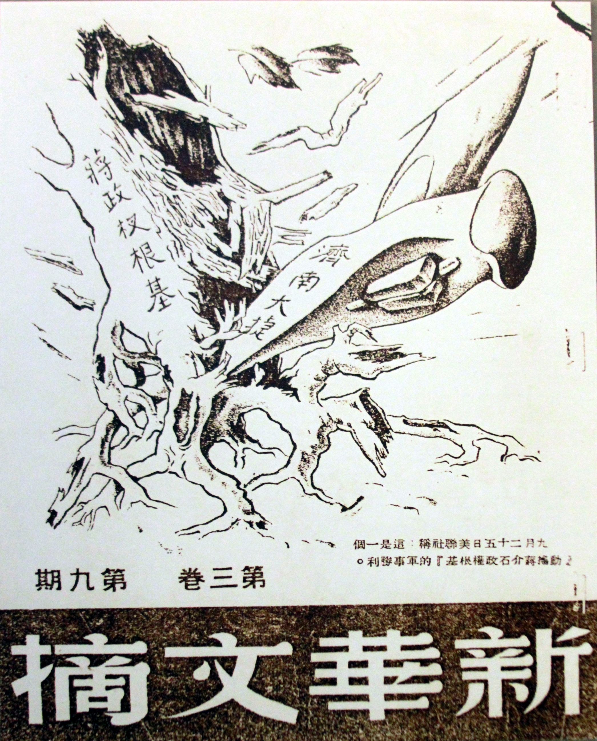 Photograph of a reproduction of a cartoon celebrating the communist victory at the Battle of Jinan in the Chinese Civil War. Photo taken from a display in the Battle of Jinan Memorial Hall in Jinan, China. the text reads: on axe: "Jinan Great Victory", on tree: "Chiang's power foundation", small text: "September 25th: Associate Press says: this is the military victory to shake the foundations of Chiang Kai-shek's power" below: "volume 3, number 9", large letters at the bottom: "Xinhua New Digest" (新华文摘)